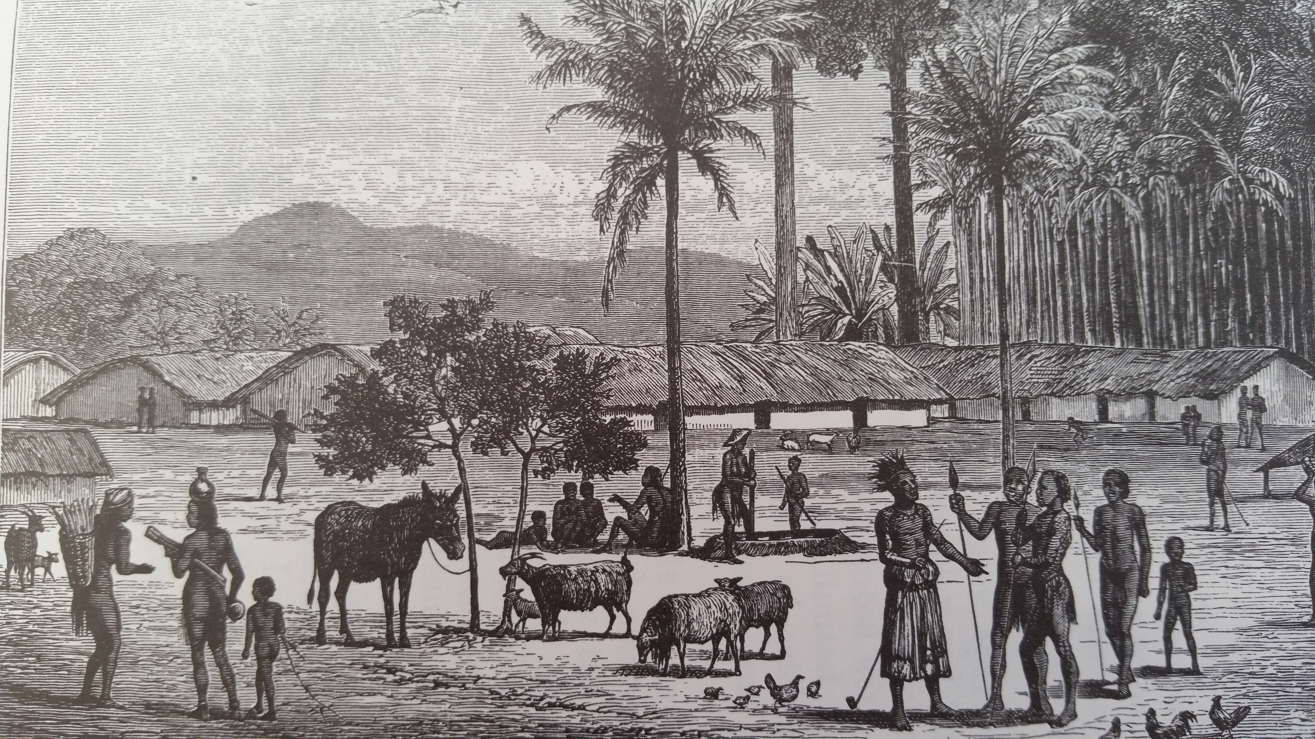 Manyema